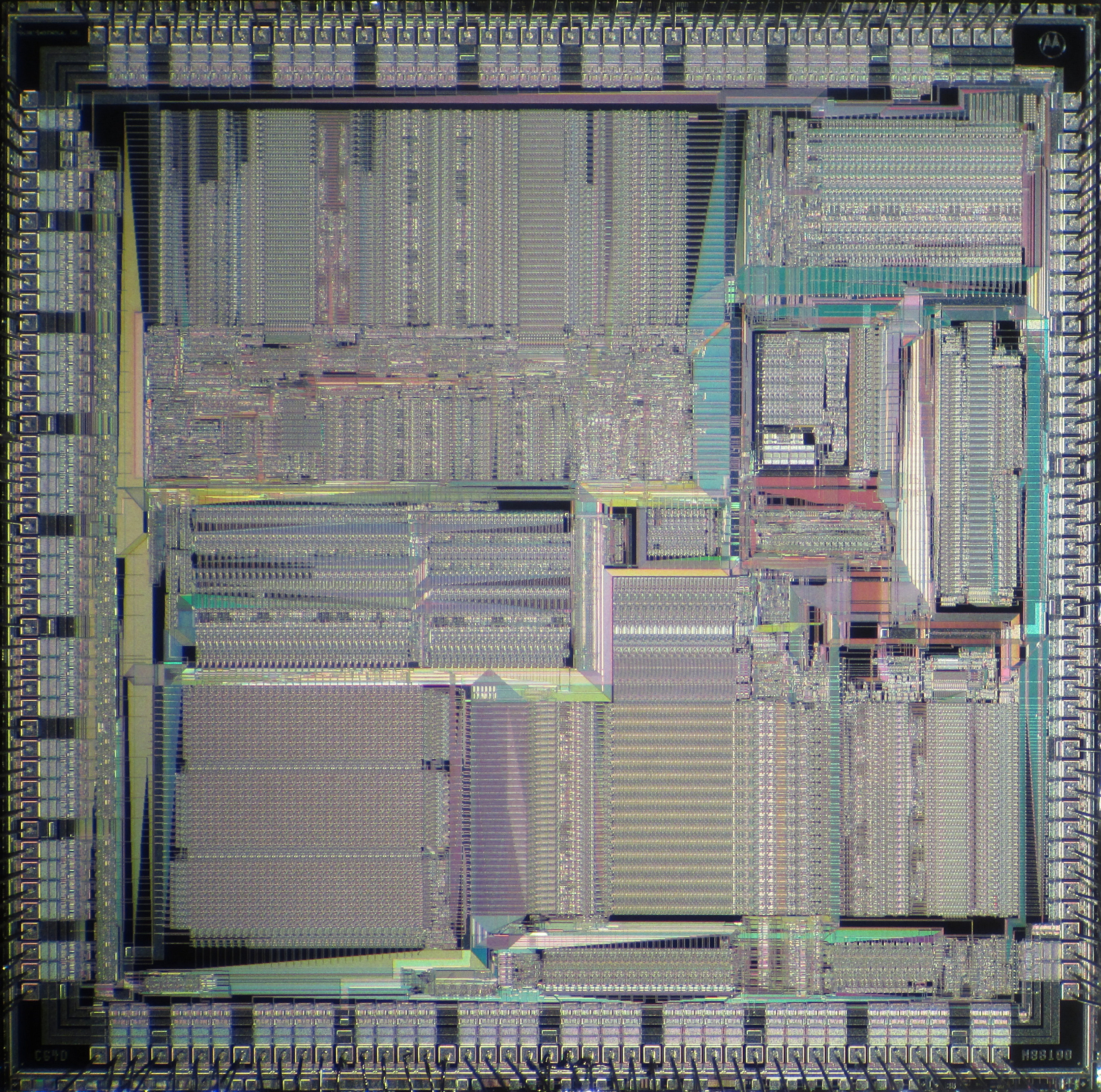 Die shot of Motorola 88100 microprocessor (XC88100RC20B, 4C64D mask).